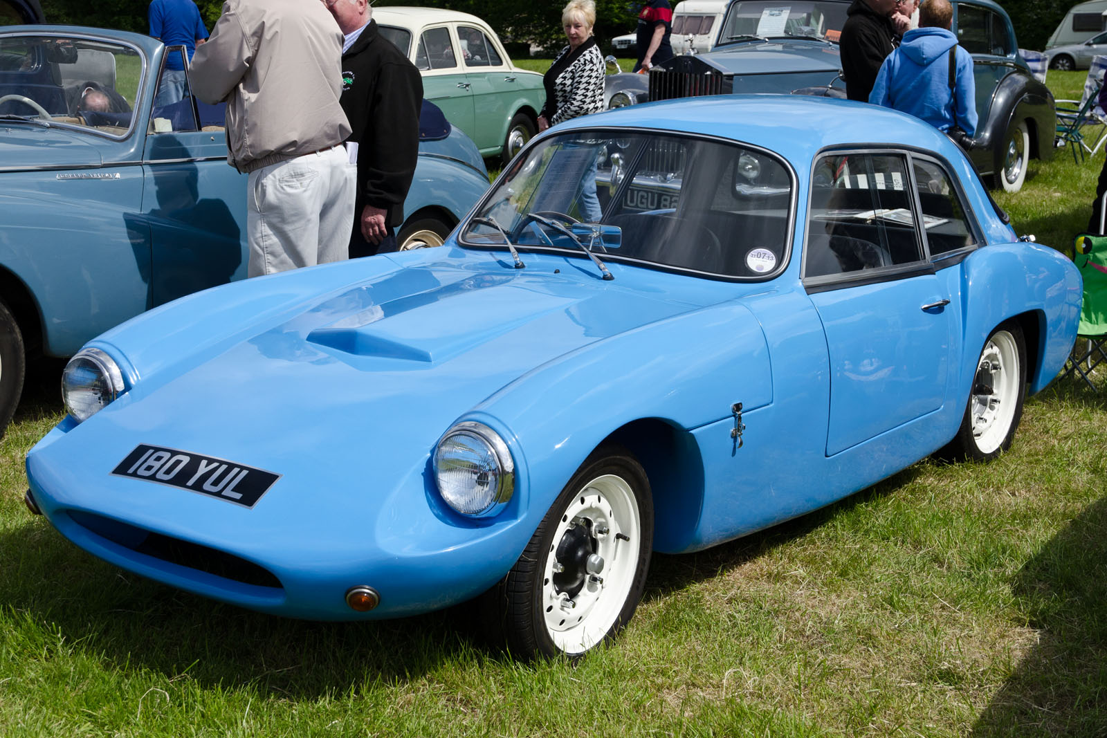 1960 Ashley 1172GT at Heskin Hall Steam Fair